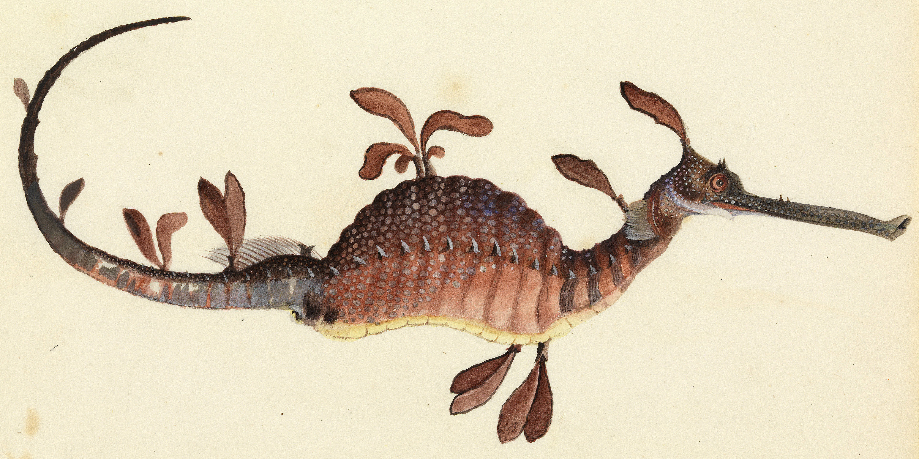 Sketch 11. Leafy sea dragon (mistitled, actually Weedy seadragon, Phyllopteryx taeniolatus) watercolour on paper sketch from the Sketchbook of fishes by Van Diemonian (Tasmanian) artist and convict William Buelow Gould (1801 - 1853). This full reproduction shows the bindings of the sketchbook at the top of the image.Produced c1832 as part of a thirty-six image still life sketchbook of fishes while Gould was a convict on Sarah Island at the Macquarie Harbour Penal Station. Probably done for Dr William De Little.Actual size 185 x 227 mm.